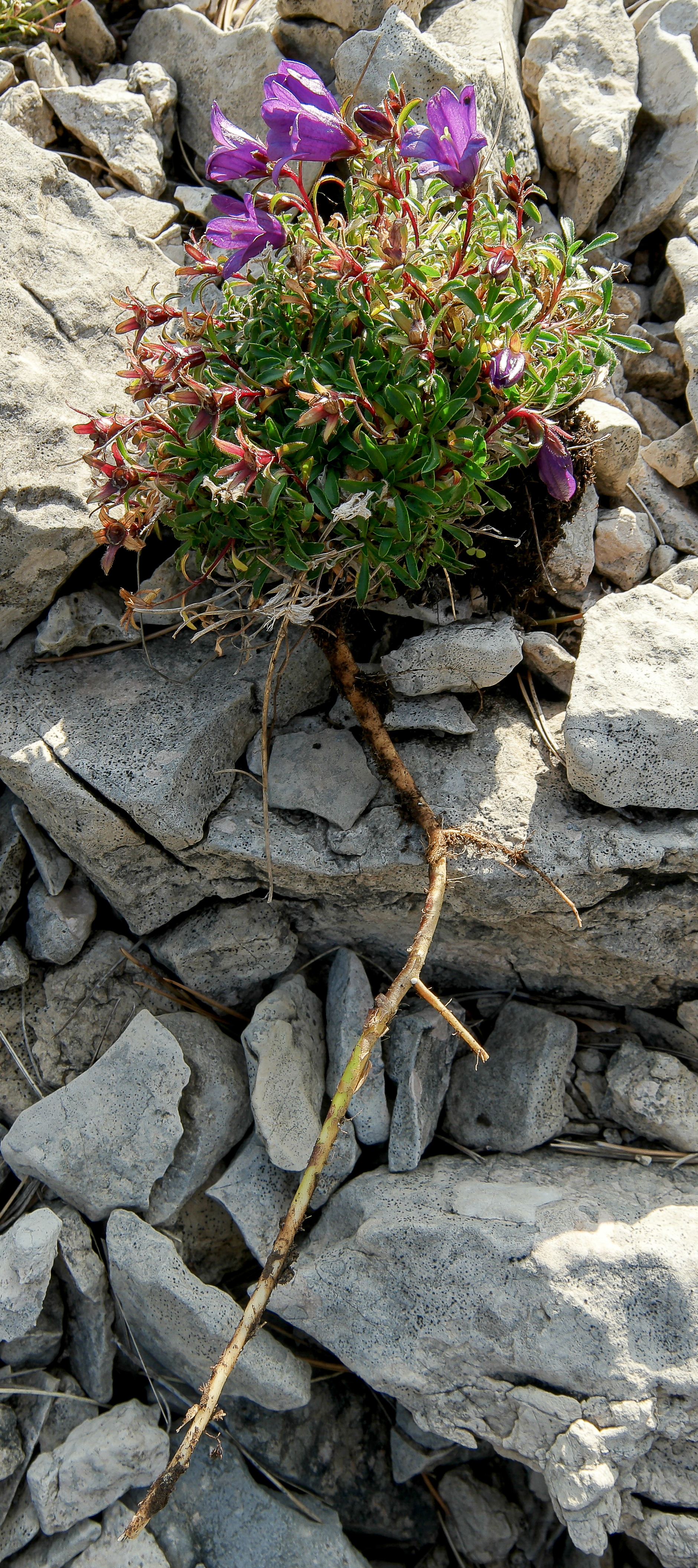 Edraianthus serpyllifolius